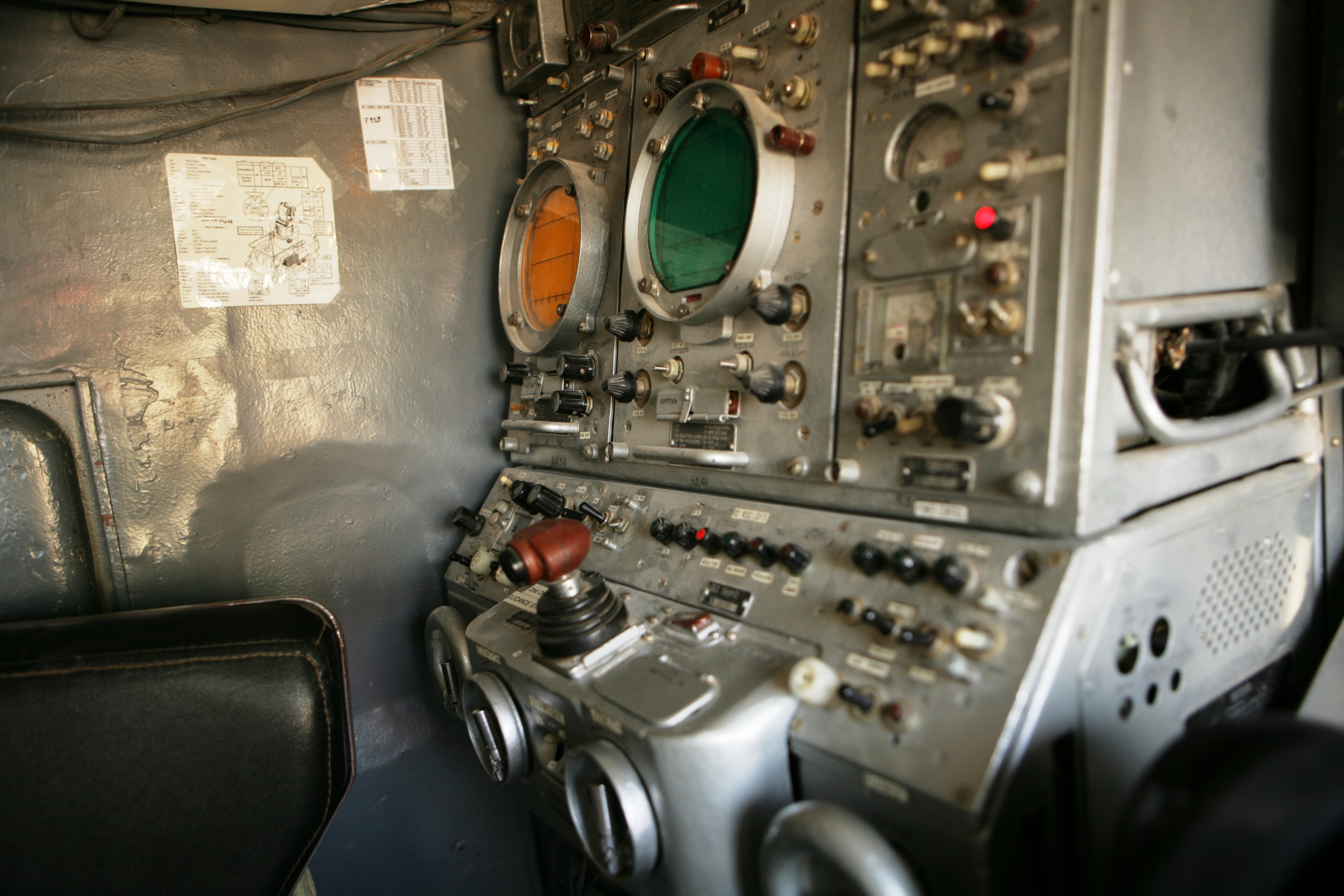 A missile guidance system control station is inside a former Soviet ZRK-SD Kub Straight Flush radar system parked at Marine Corps Air Station Yuma, Ariz., April 3, 2010.